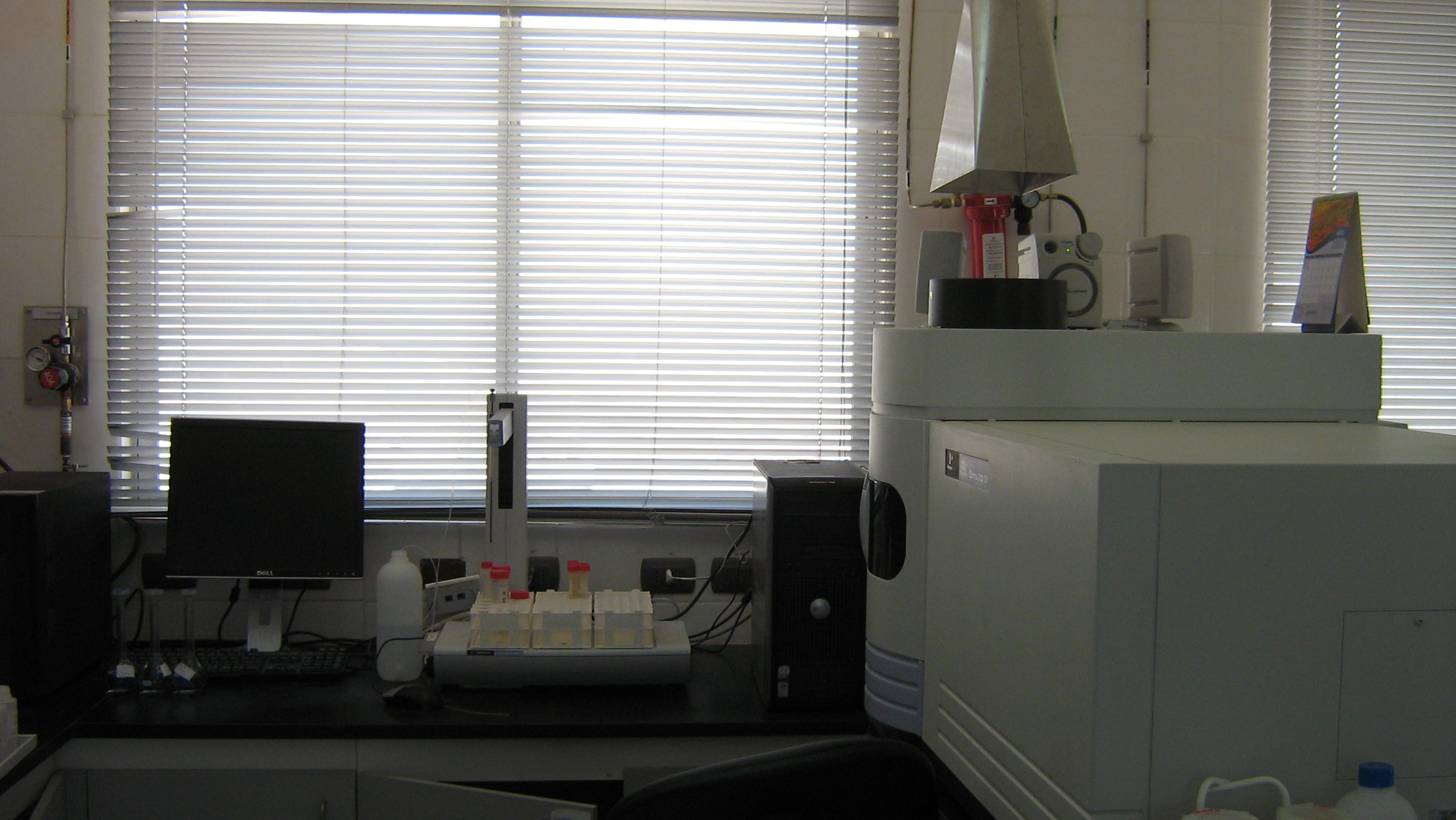 ICP Plasme OES